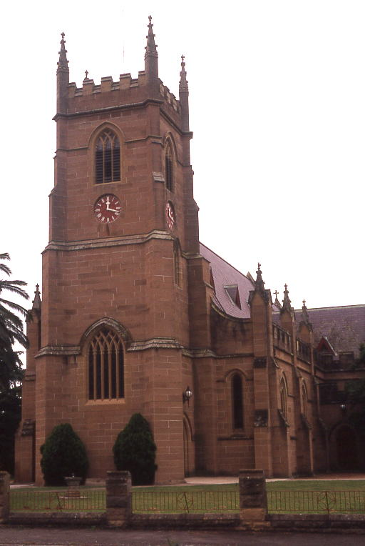 all saints church, singleton, australia